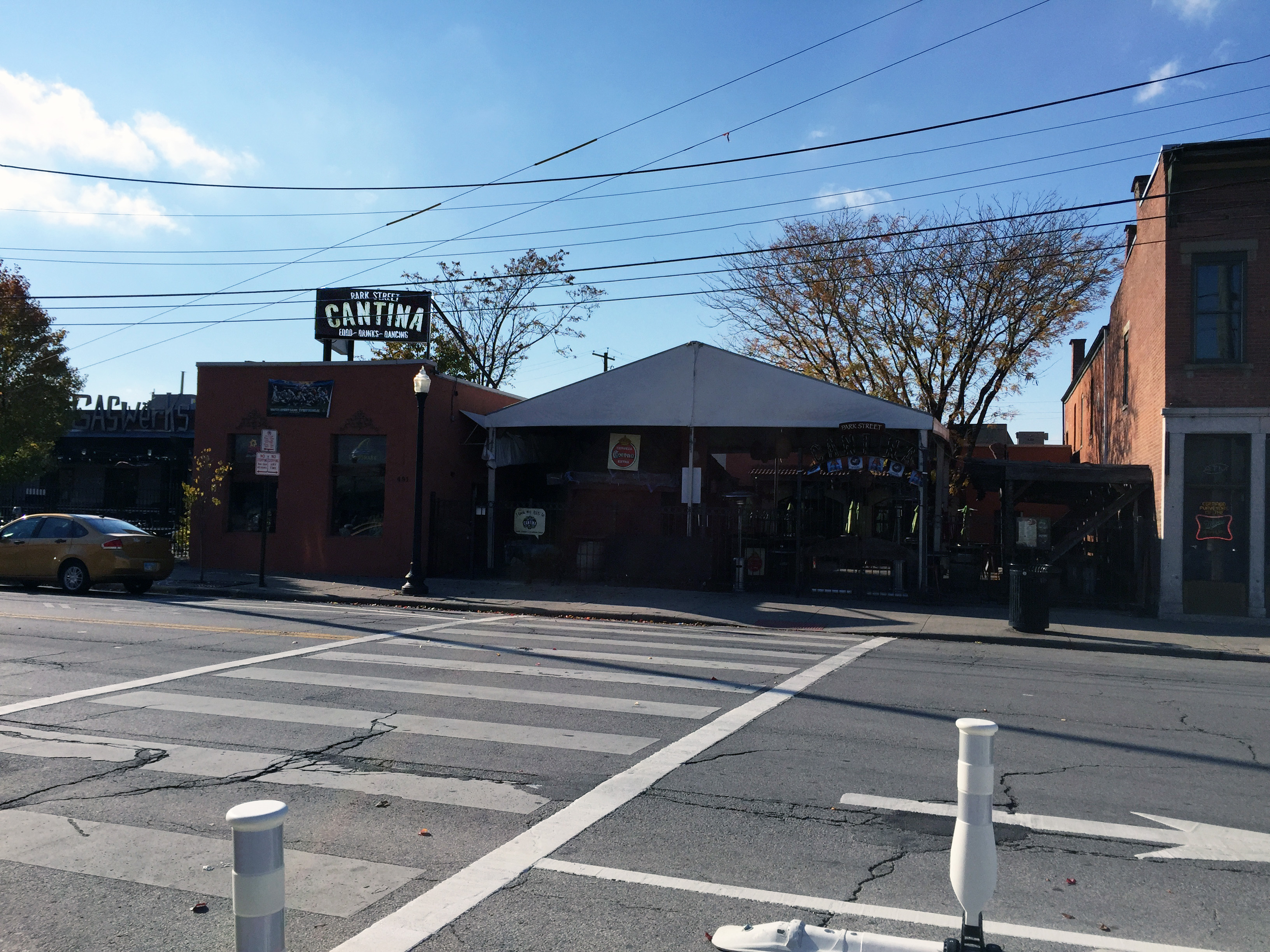 Park Street Cantina